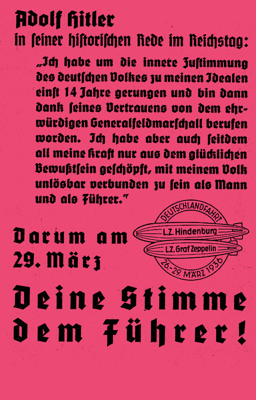 Propaganda leaflet dropped over Germany from the D-LZ129 Hindenburg during the "Hitler Re-election and Rheinland Referendum Flight" ("Deutschlandfahrt") which was flown jointly with the D-LZ127 Graf Zeppelin, March 26-29, 1936. Source: The Cooper Collection of Zeppelin Postal History This leaflet was produced in 1936 by the Government of the now defunct German Reich for the purpose of political propaganda. The script is fraktur